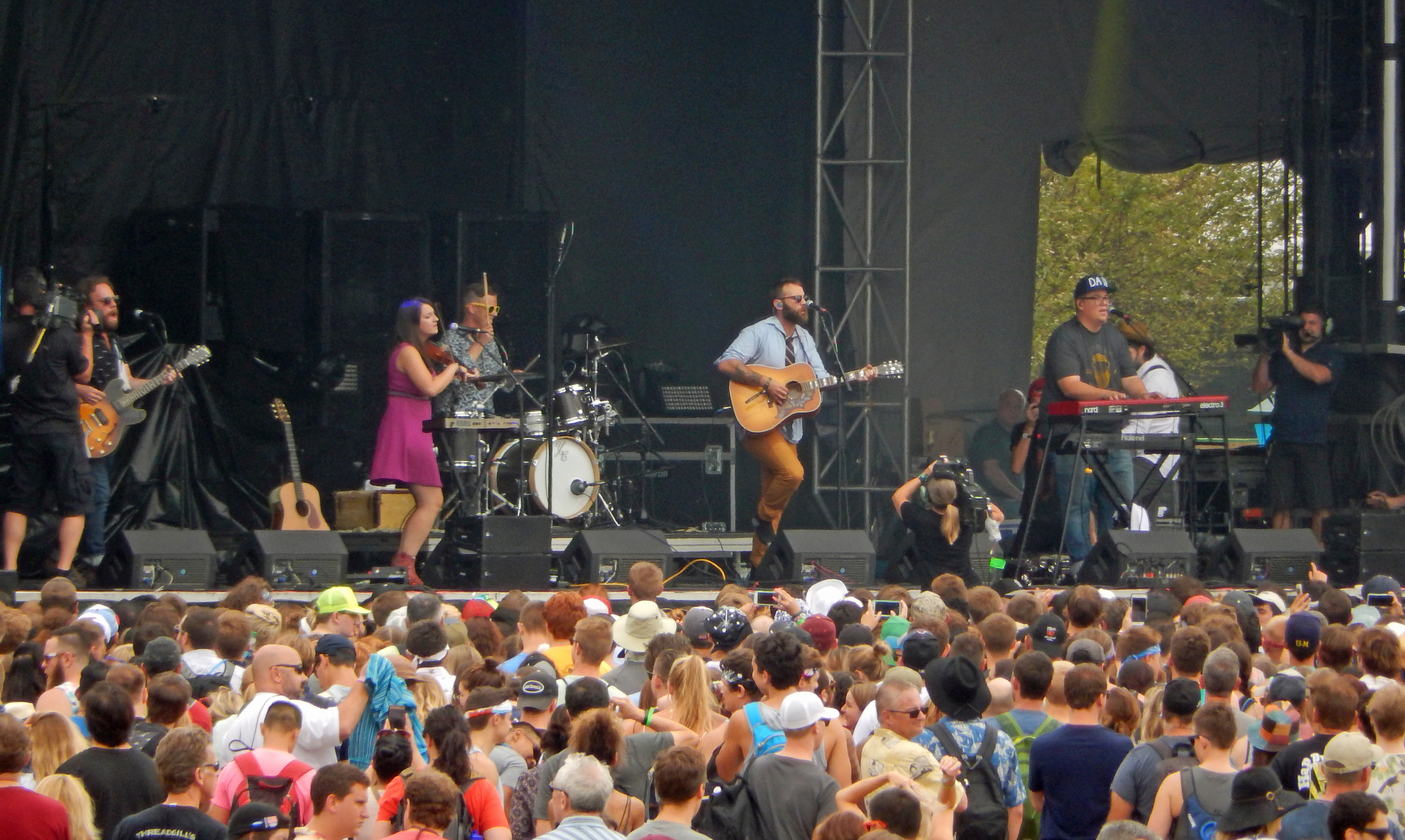 The Strumbellas at Lollapalooza 2016